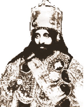 Haile Selassie becomes emperor of Ethiopia 1930.